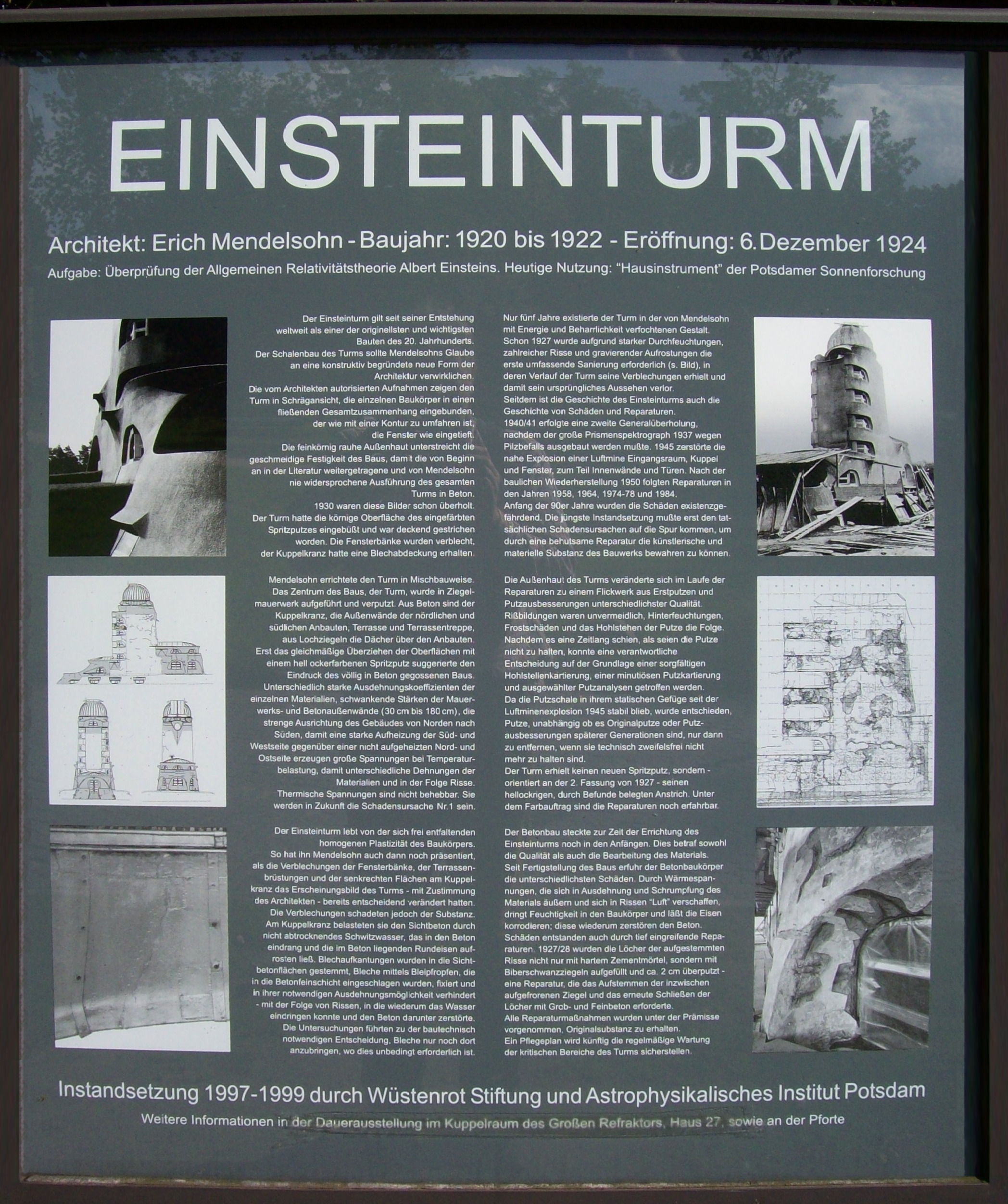 Plaque with information about the Einstein Tower (EXIF-data are registering focal length of 6.0 mm ... causing observable contortion!)